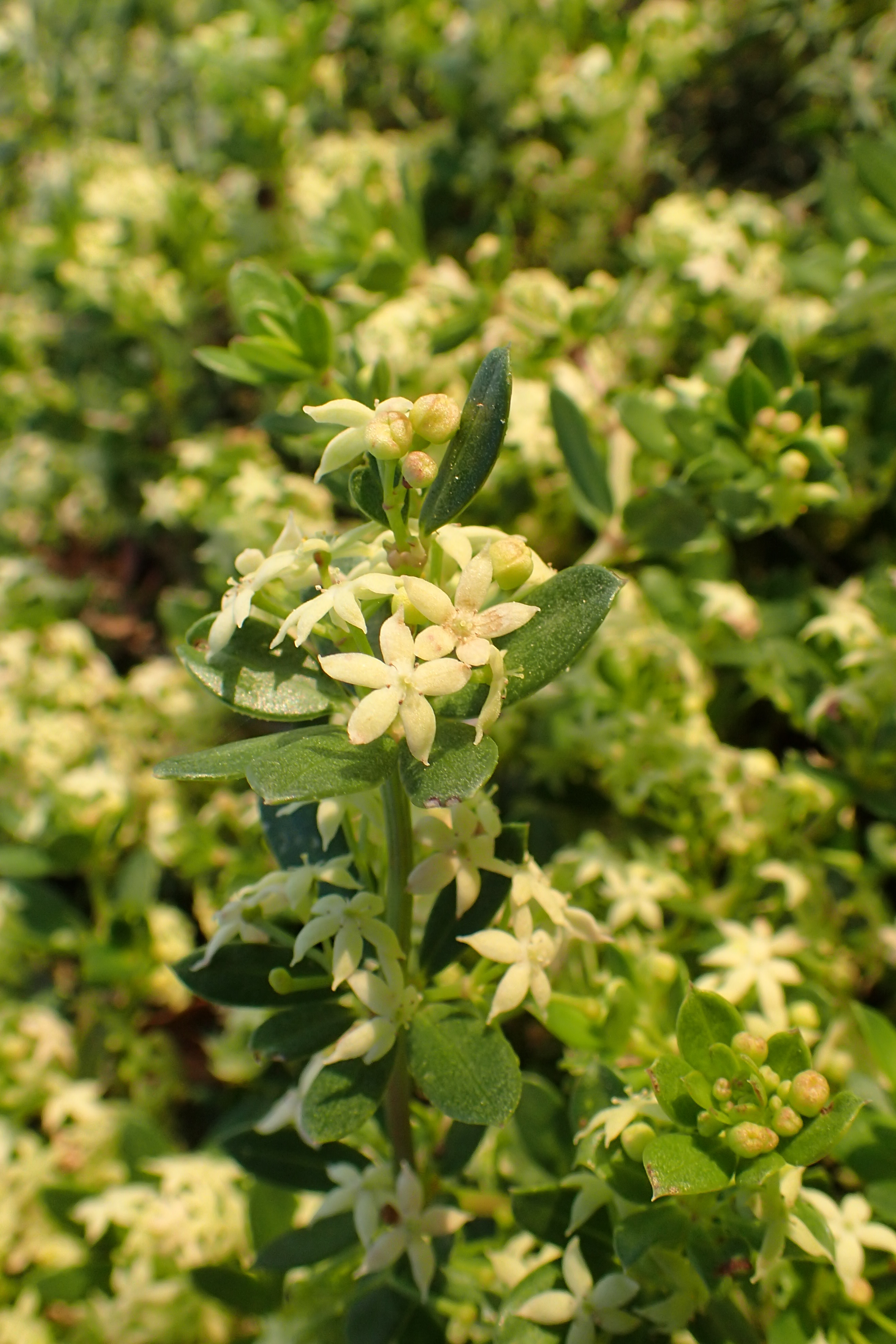 Rubia tenuifolia in Kavo Gkreko, Cyprus